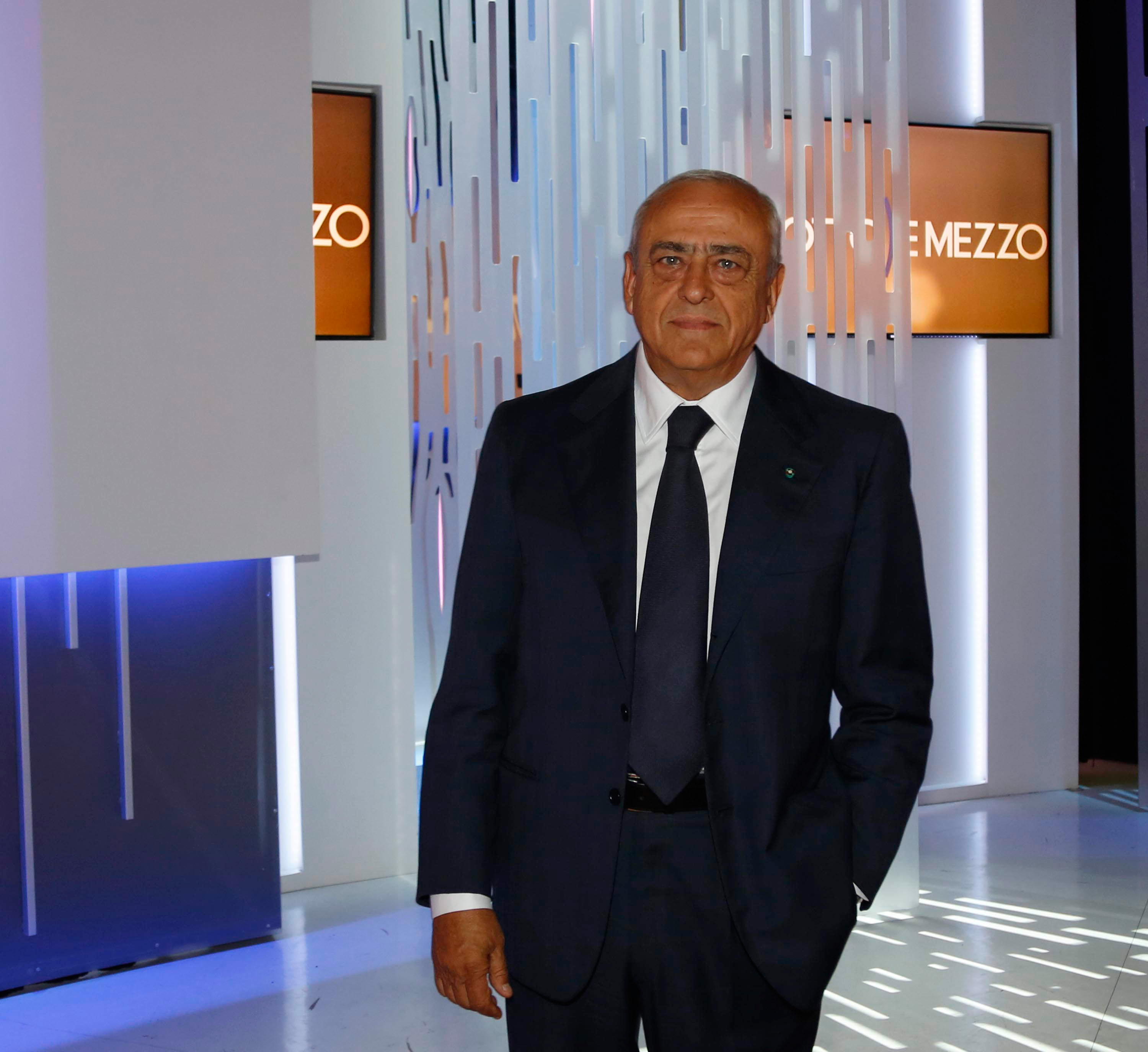 President Francesco Gaetano Caltagirone interviewed by Lilly Gruber on La7 TV program "Otto e Mezzo".